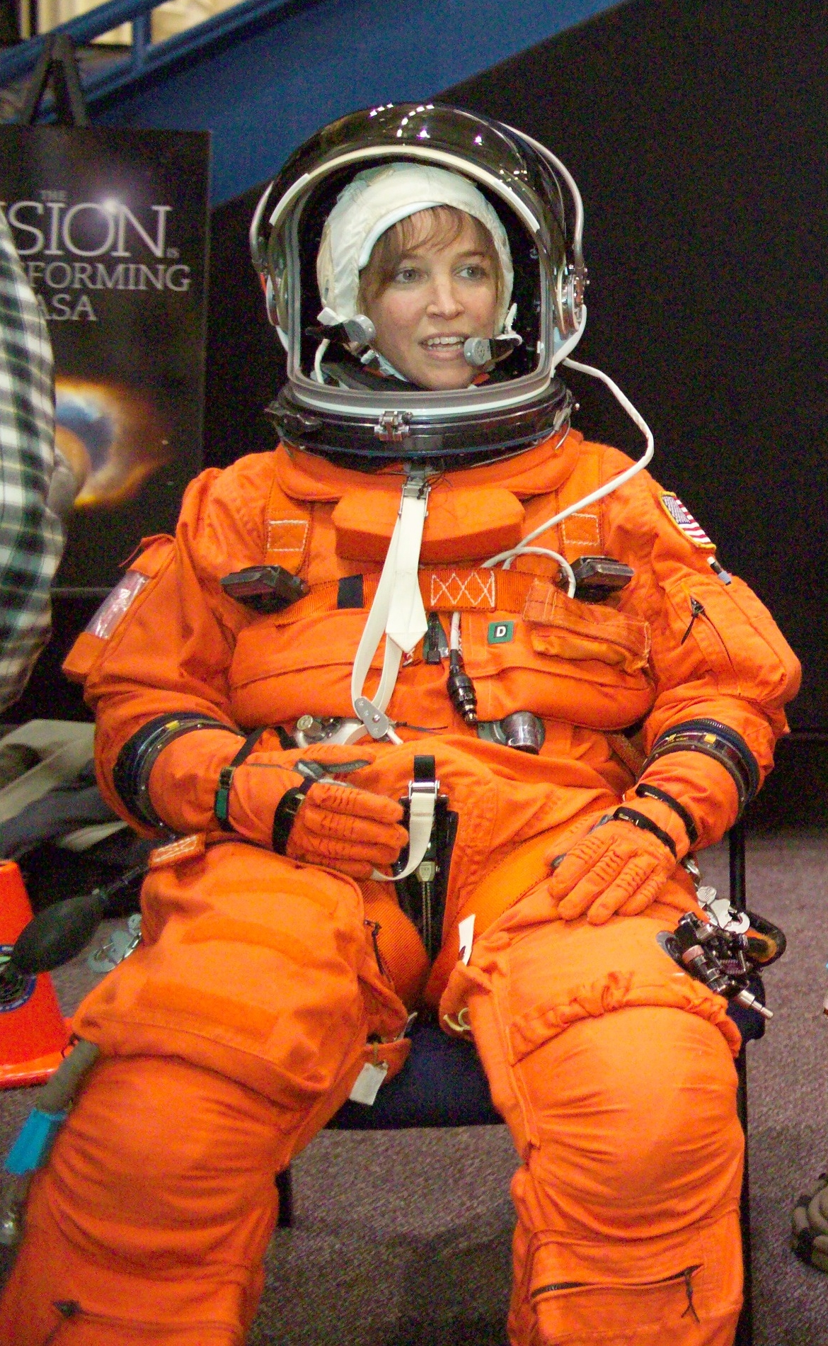 Astronaut Lisa Nowak, STS-121 mission specialist, attired in a training version of the shuttle launch and entry suit, awaits the start of an emergency egress training session in the crew compartment trainer (CCT-1). The CCT is one of several shuttle-training components located in the Space Vehicle Mockup Facility at the Johnson Space Center (JSC).